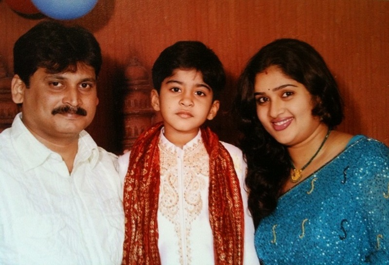 Family picture of Telugu actress Priya